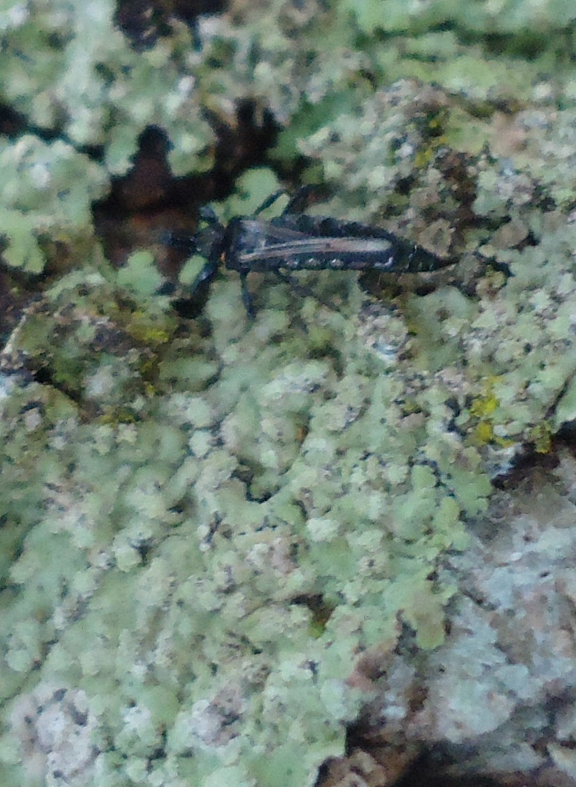 Tube-tail thrips from the Philippines, these were very numerous, feeding on fungi. Family Phlaeothripidae, probably Subfamily Idolothripinae.